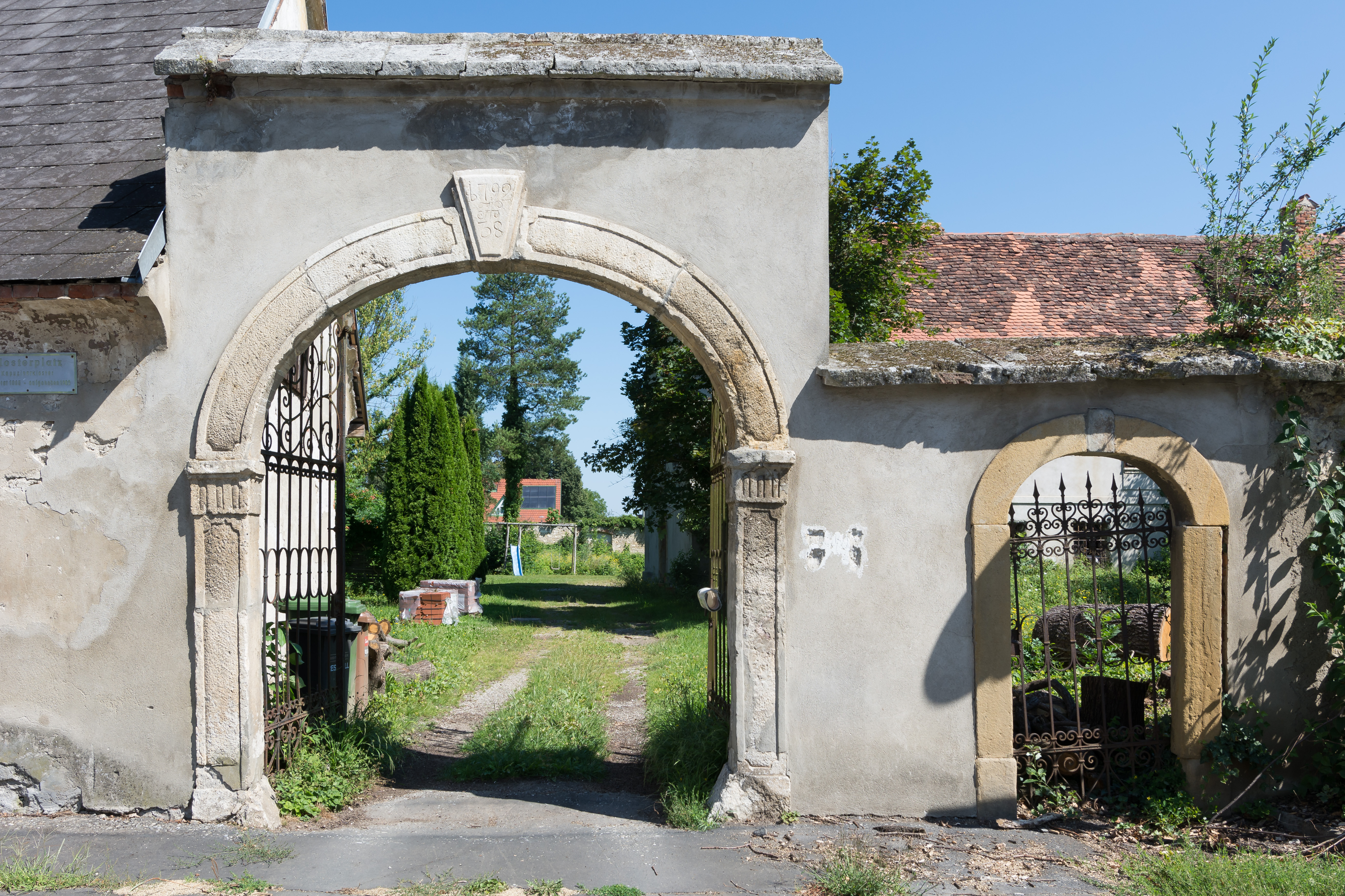 The former capuchine monastery of Mureck / Styria was erected in 1665 and closed down in 1782.